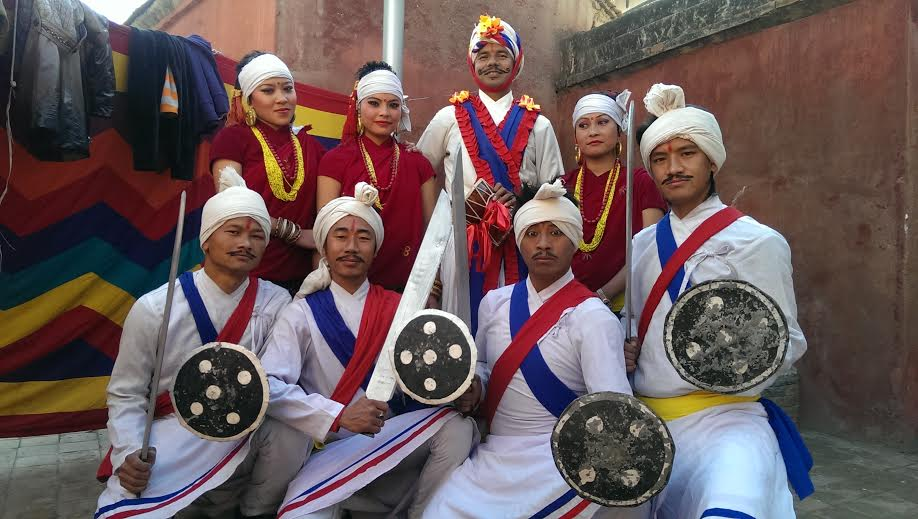 छलिया नृत्य